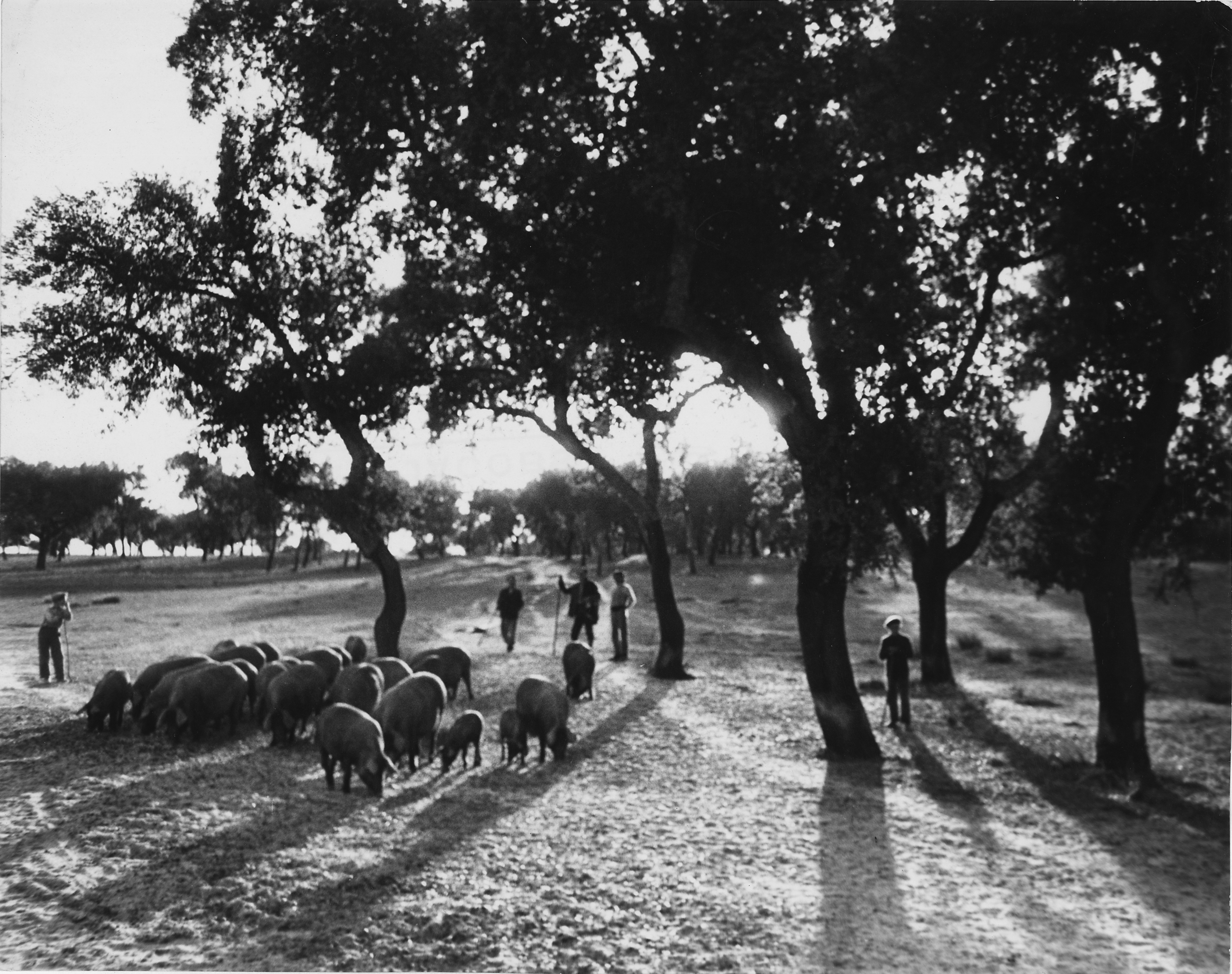 Cork-tree groves near Vila Franca, the inland end of the city bay of Lisbon. Of all Portugal's exports, 22 percent in cork. Peasants herd their pigs in a cork grove here.